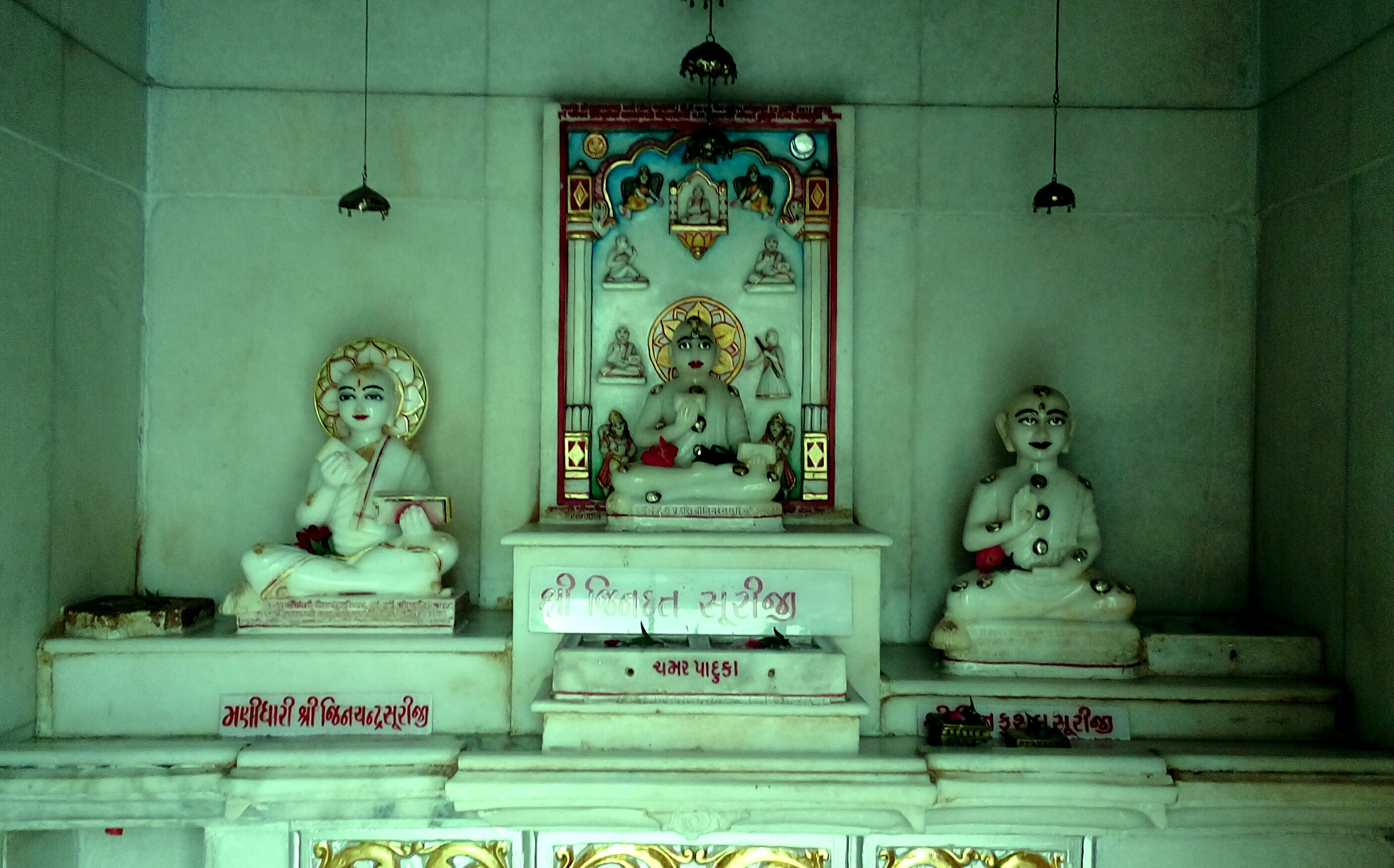 Jinadatta Suri, Jinakushal Suri and Jinachandra Suri are three of four ascetic known as Dada Guru and venerated by Kharatara Gaccha, a branch of Svetambara Jainism